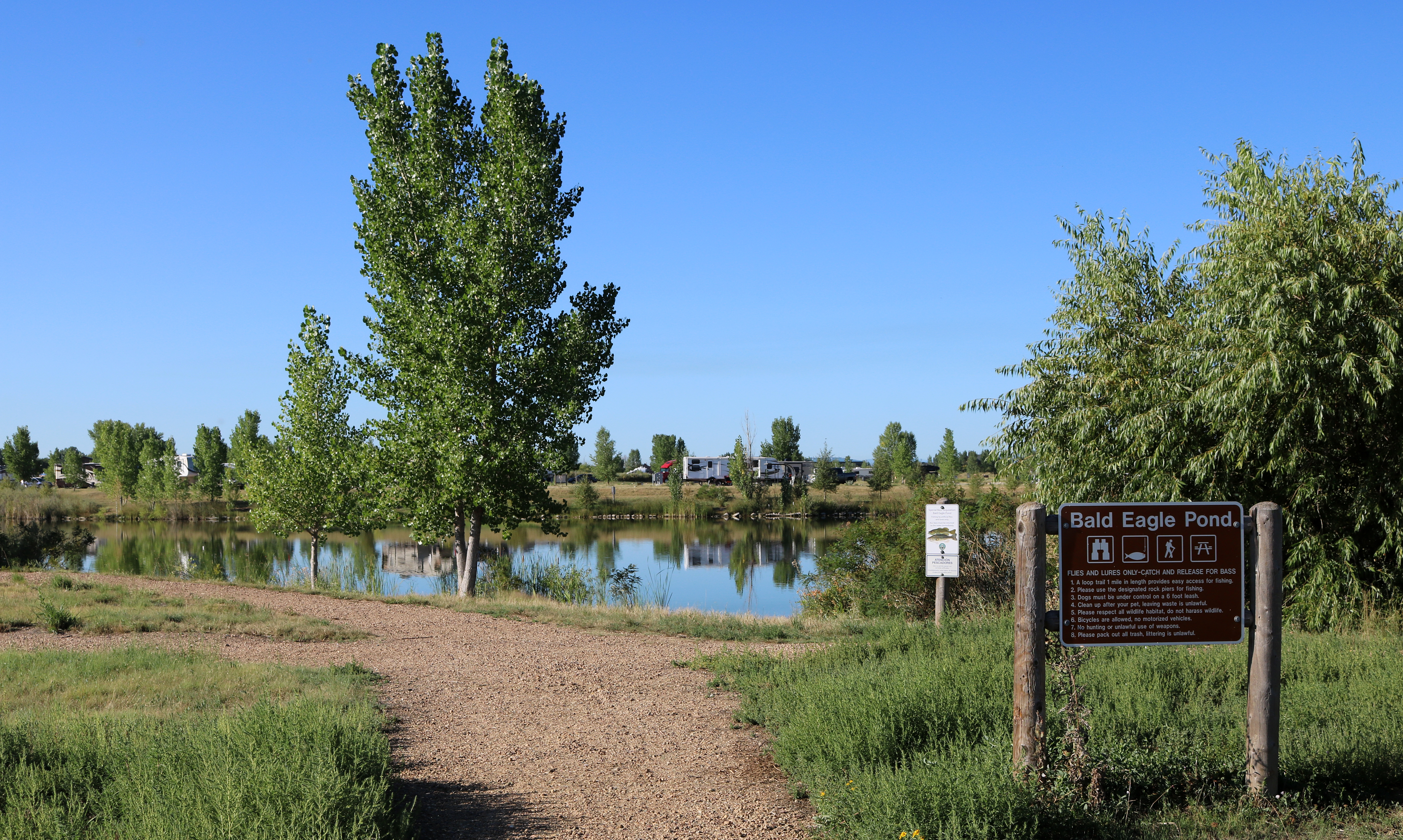 St. Vrain State Park in Firestone, Colorado. The picture shows Bald Eagle Pond, with one of the campgrounds behind the pond.